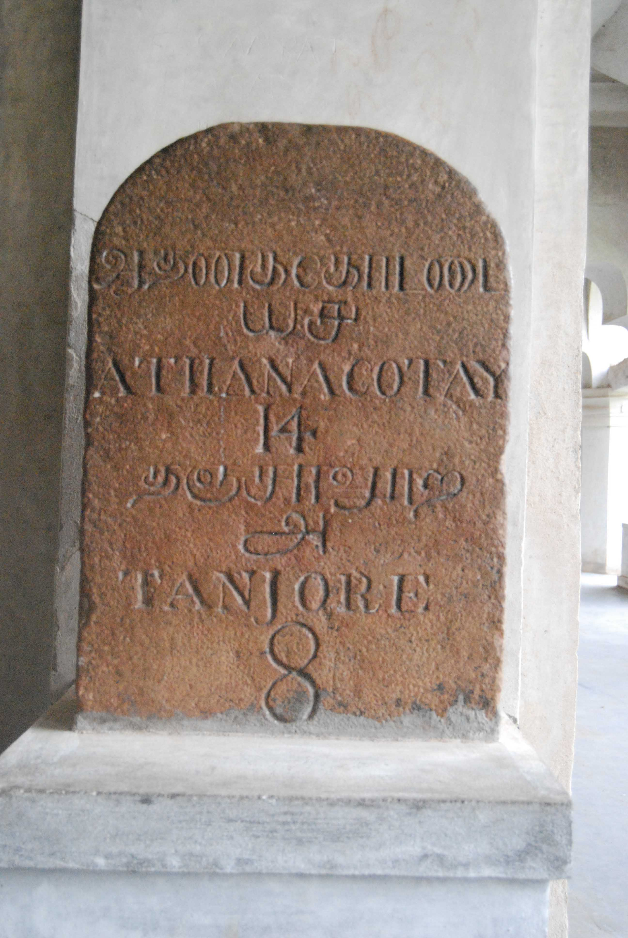 old milestone found in tanjore palace museum. It is bilingual milestone in Tamil and English and uses Tamil numerals as well. ஆதனக் கோட்டை யசி Athana Cotay 14 தஞ்சாவூர் அ Tanjore 8